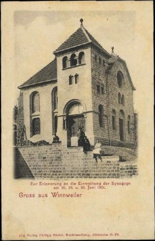 Souvenir Card for the inauguration of the synagogue of Winnweiler (Germany) in 1901. The synagogue was destroyed by the nazis during Kristal Nacht in 1938.